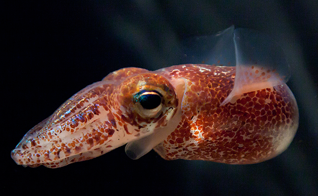 The Hawaiian bobtail squid is an established model system for the study of the colonization of epithelia by bacterial symbionts. The image shows the squid Euprymna scolopes swimming in the water column. This species, which is a night-active predator in the shallow sand flats of the Hawaiian archipelago, uses the light produced by its luminous bacterial symbiont, Vibrio fischeri, as a camouflage. Much like the microbiota of the human gut, the squid's bioluminescent partner is acquired anew each generation and resides extracellularly along the surface of epithelial tissues. The relationship between E. scolopes and V. fischeri has been studied for over 25 years as a model for the establishment and maintenance of animal-bacterial symbioses. See McFall-Ngai.